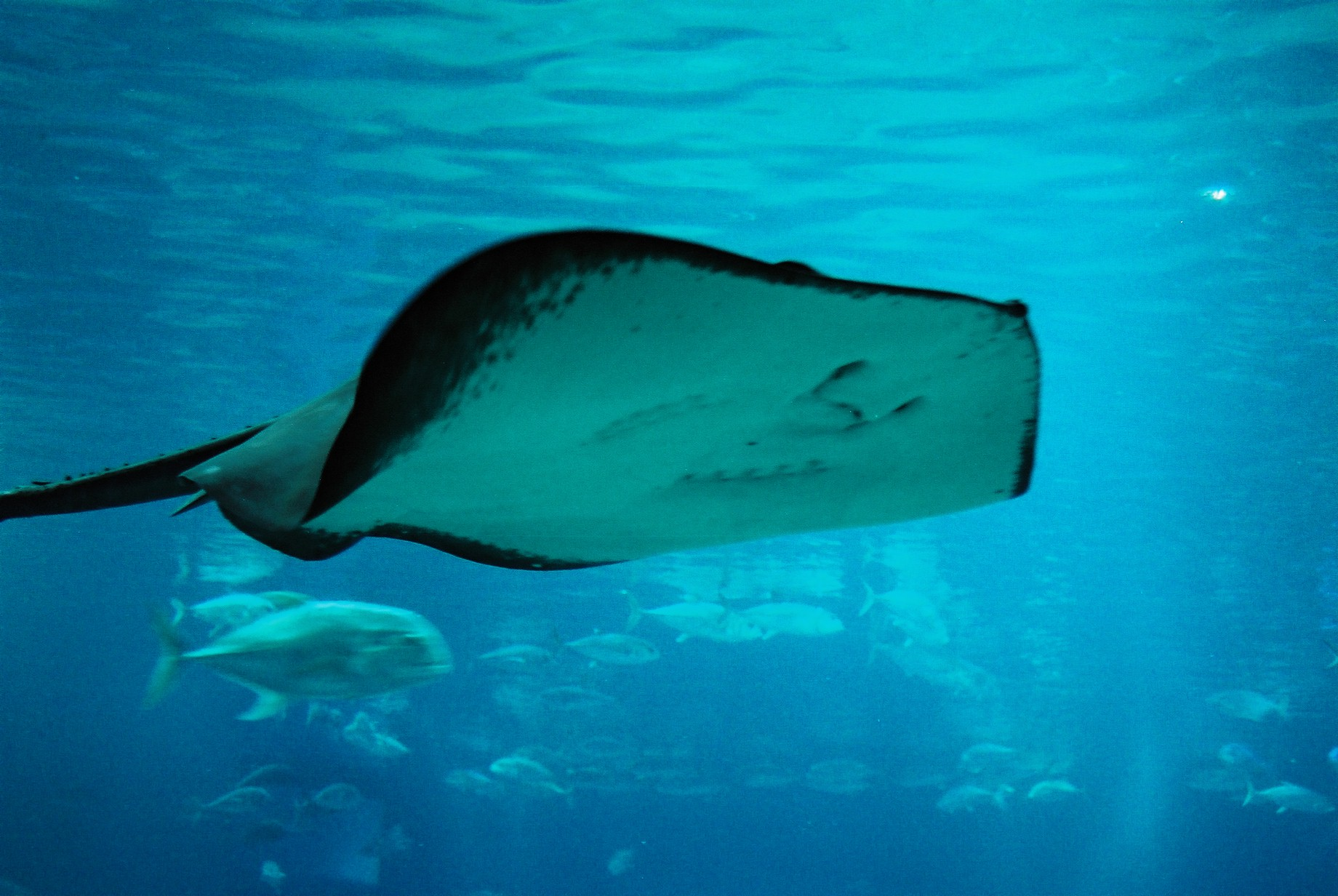 Pitted stingray (Dasyatis matsubarai) at the Osaka Aquarium.